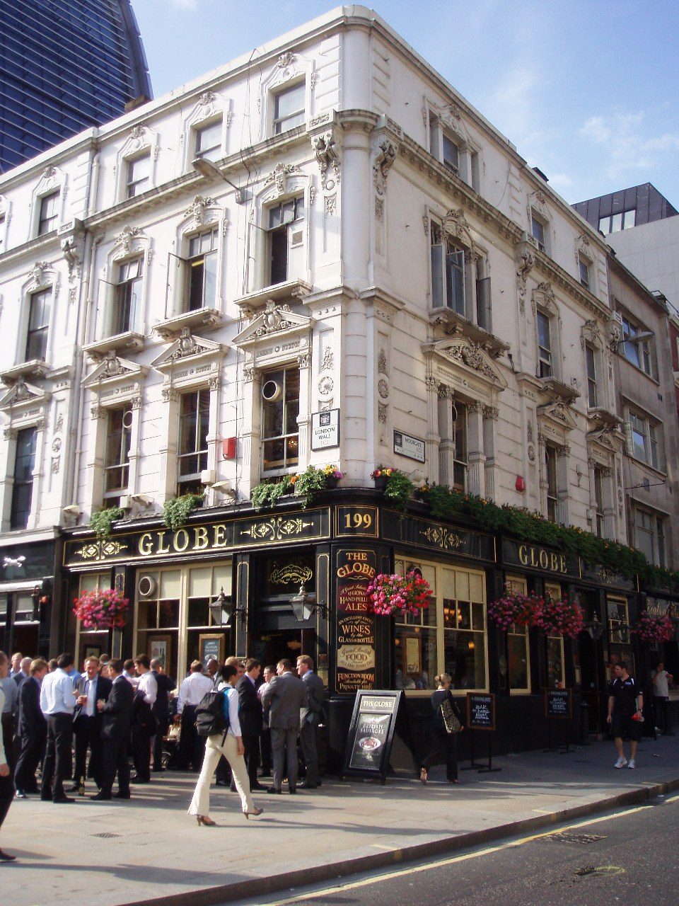 This busy pub is at the corner of London Wall, and now incorporates another pub with its own entrance round the side called Keats at the Globe. Address: 83 Moorgate (sometimes listed as 199 Moorgate, formerly Finsbury Pavement). Former Name(s): The Globe Tavern. Owner: Mitchells and Butlers [Nicholson's] (website); Charrington (former). Links: Fancyapint Beer in the Evening Dead Pubs (history)